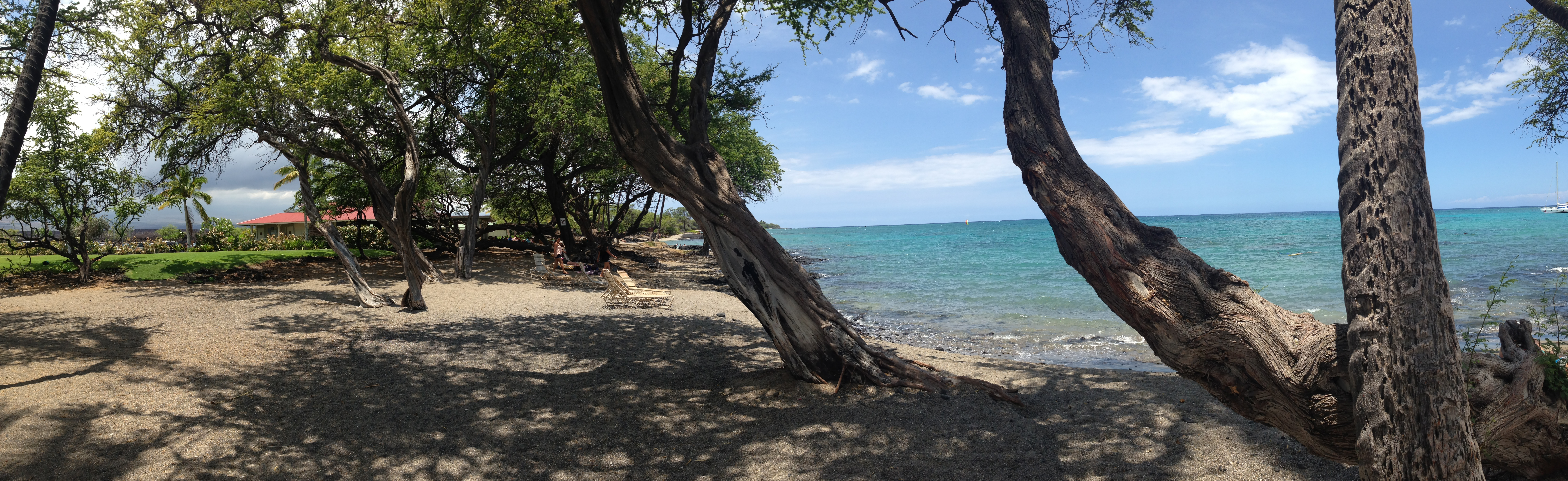 More quiet beach on Anaeho'omalu Bay (left of the fishponds)